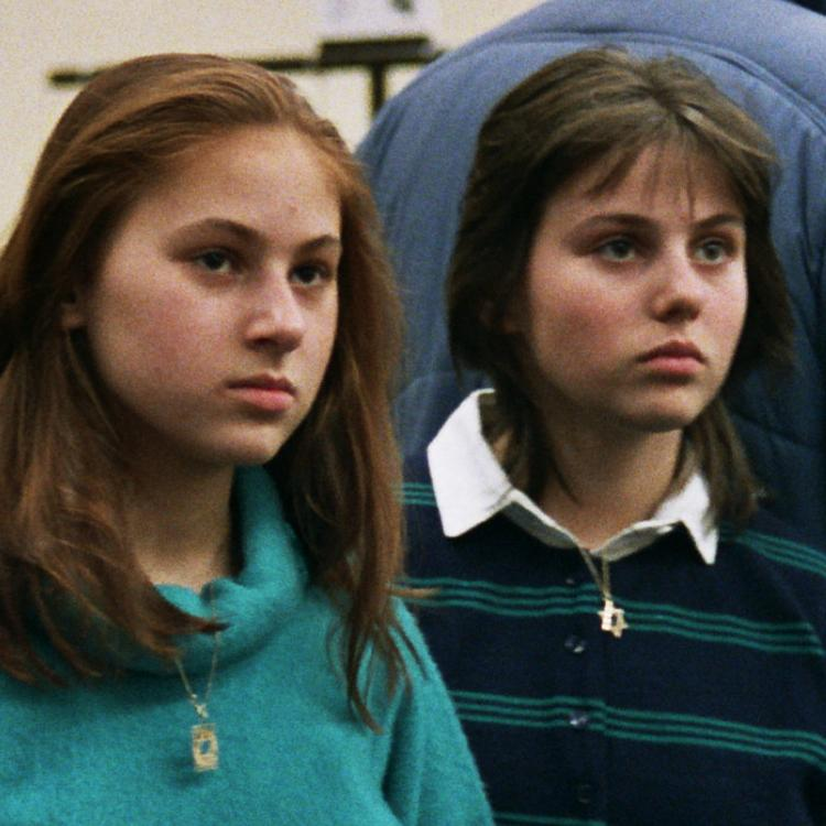 Judit Polgár and Zsófia Polgár, Chess Olympiad 1988 in Thessaloniki, Photographer Gerhard Hund.